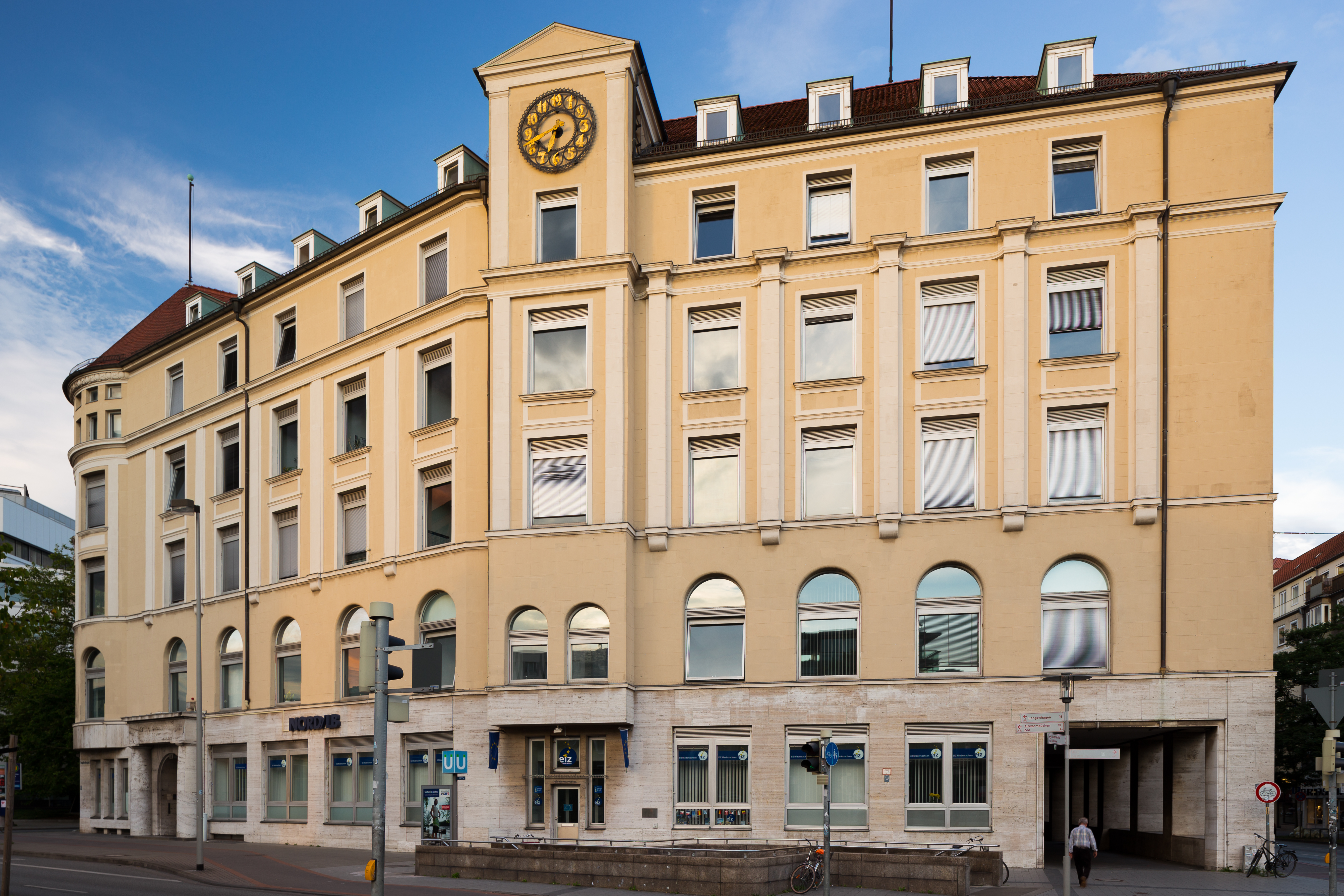 "Hansa Haus" building located at Aegidientorplatz in Hanover, Germany. It was re-erected after world war II.